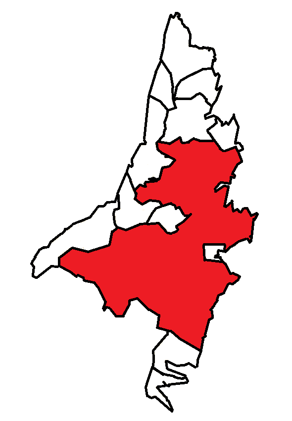 Map of St. John's in relation to nearby communities.